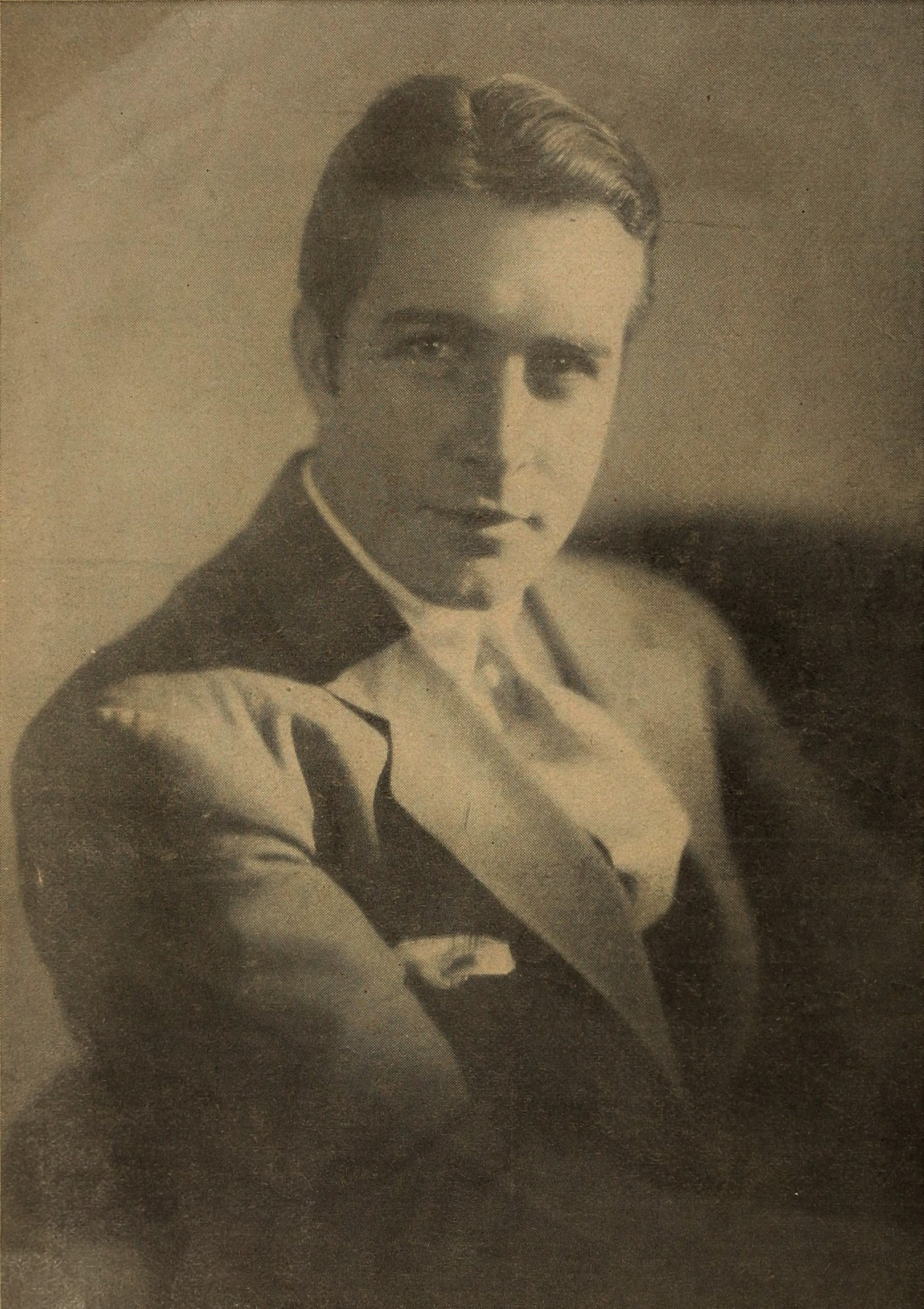 Portrait of actor John Boles